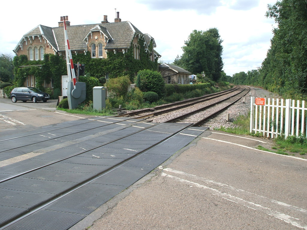 Womersley railway station (site), YorkshireOpened in 1848 on the Lancashire & Yorkshire Railway's line from Doncaster to Knottingley, and closed in 1948. View north west towards Knottingley and Wakefield. The large "Swiss cottage style" station building is prominent.